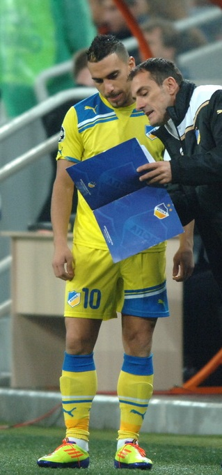 Constantinos Charalambides is a Cypriot Former Football Player